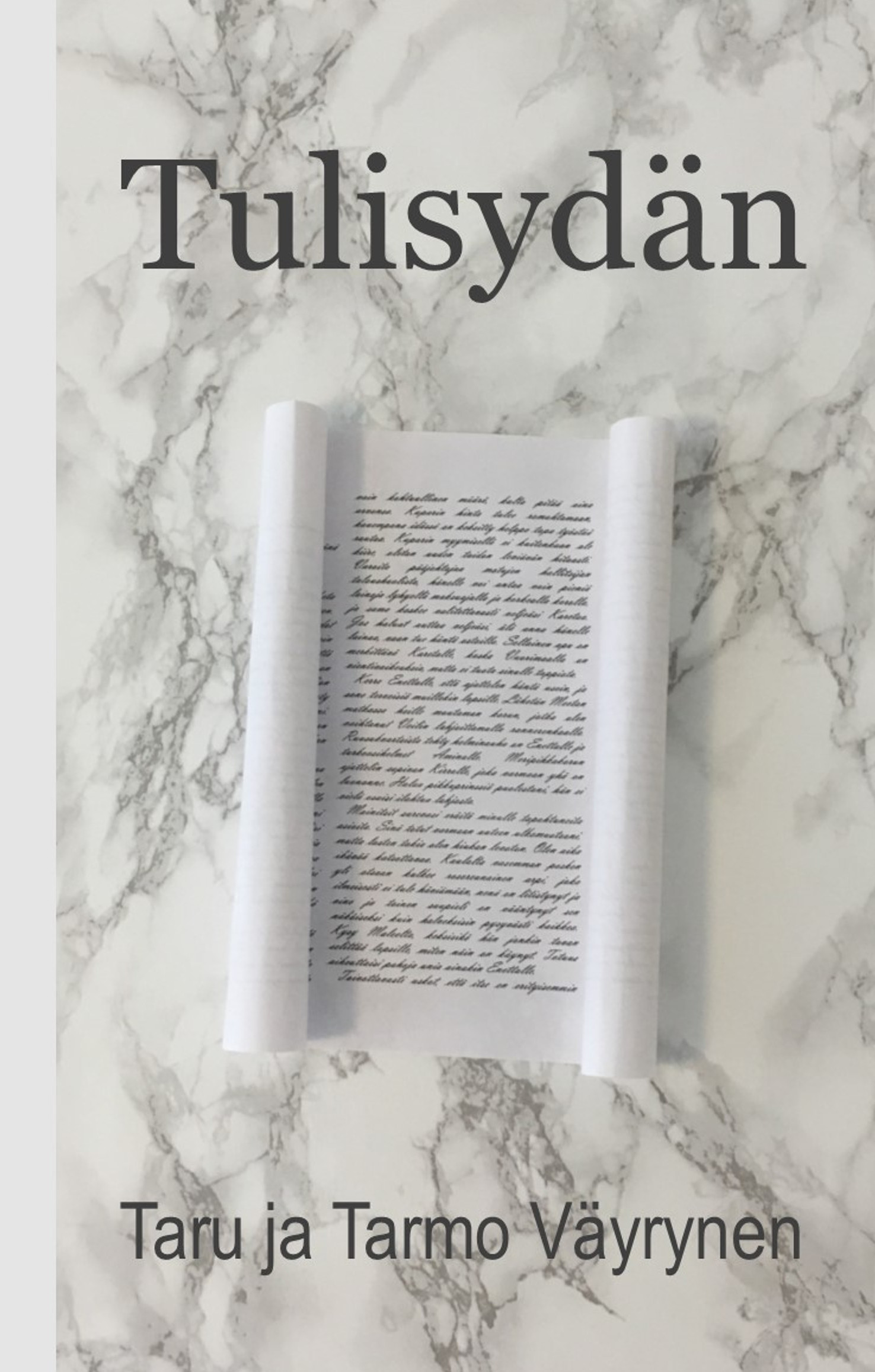 Tulisydän